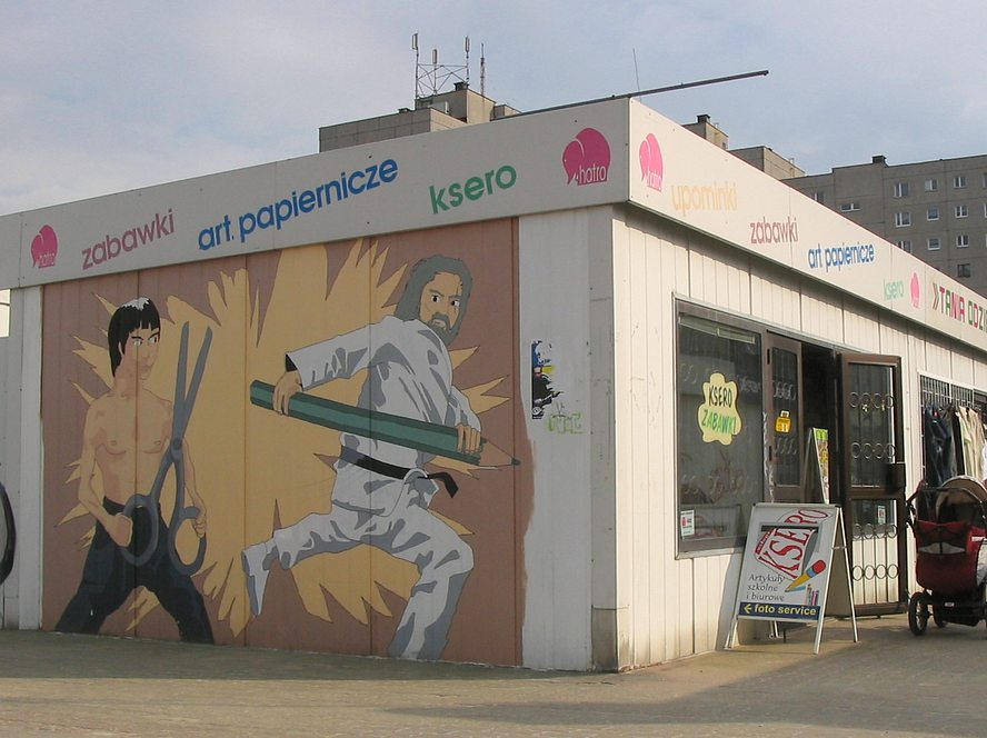 a drawing presumably referring to Bruce Lee's popularity in mass culture, advertising a small stationery shop in Zielona Góra, Poland